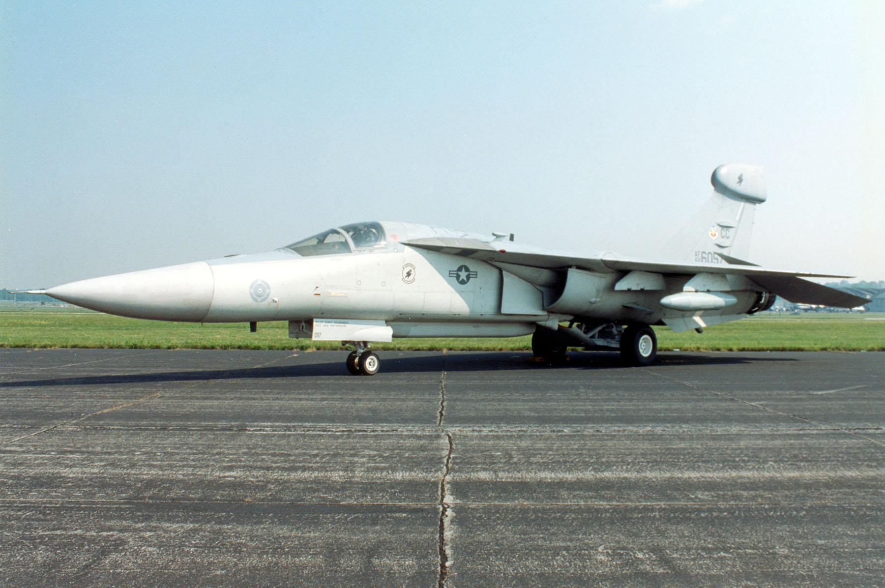 This EF-111A Raven, s/n 66-6057 (originally F-111A 66-0057), was first assigned to the 390th Electronic Combat Squadron based at Mountain Home Air Force Base, Idaho. Later, they were based at Cannon Air Force Base, N.M. This aircraft was placed on display at the museum in July 1998.